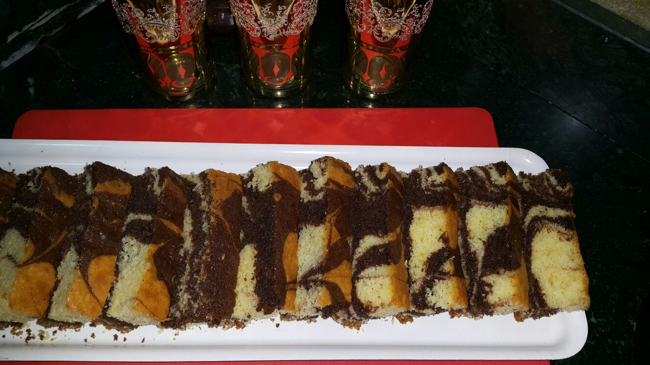 Marble Cake